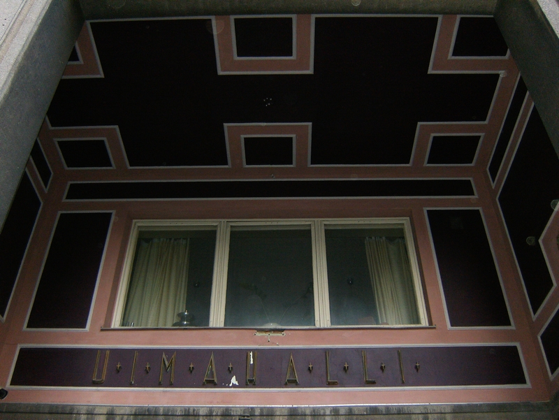 Yrjönkatu, Helsinki, Finland, public swimming hall in the center of Helsinki, detail, example of 1920s classicism